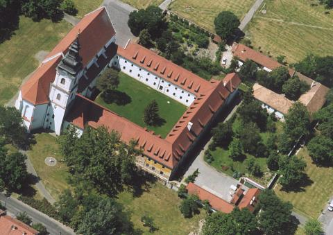 Szeged, Hungary, aerialphotography